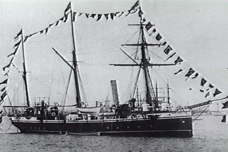 AWM caption : "WILLIAMSTOWN, VIC. 1896-11-09. STARBOARD BOW VIEW OF THE SCREW GUNBOAT HMS RINGDOVE VISITING MELBOURNE FOR THE CUP SEASON. THE SHIP IS DRESSED OVERALL FOR THE BIRTHDAY OF THE PRINCE OF WALES."